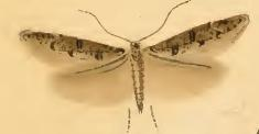 Stainton’s Natural History of the Tineina (1855–1873): Sorhagenia rhamniella